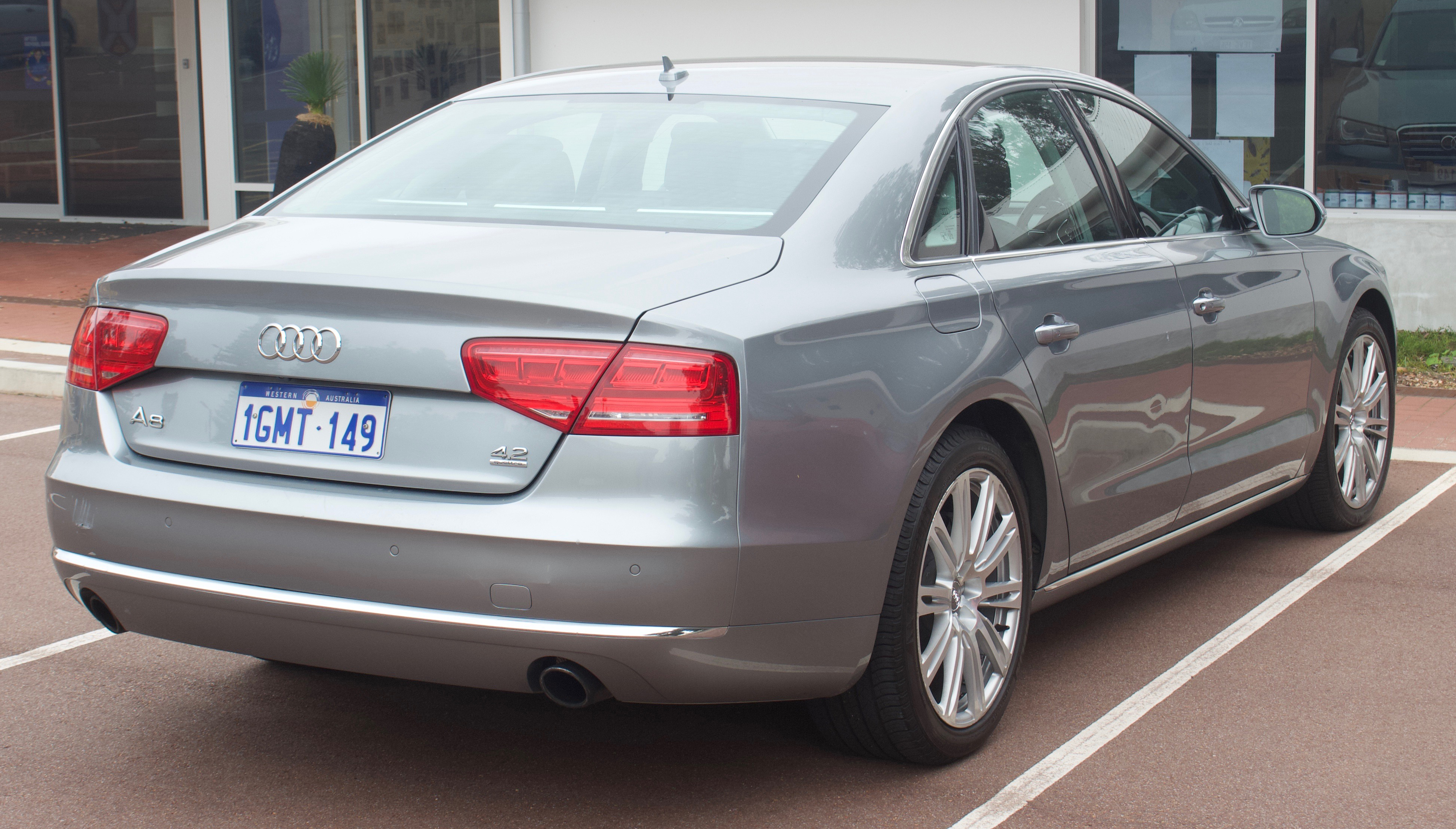 2012 Audi A8 (4H) 4.2 quattro sedan. Photographed in Swanbourne, Western Australia, Australia.